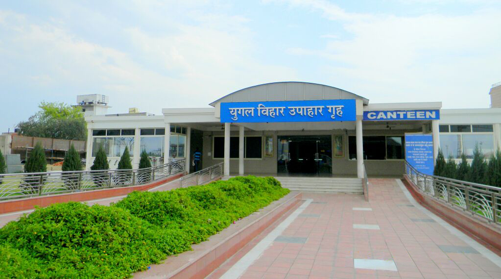 Canteen in Prem Mandir Complex